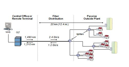 PON diagram